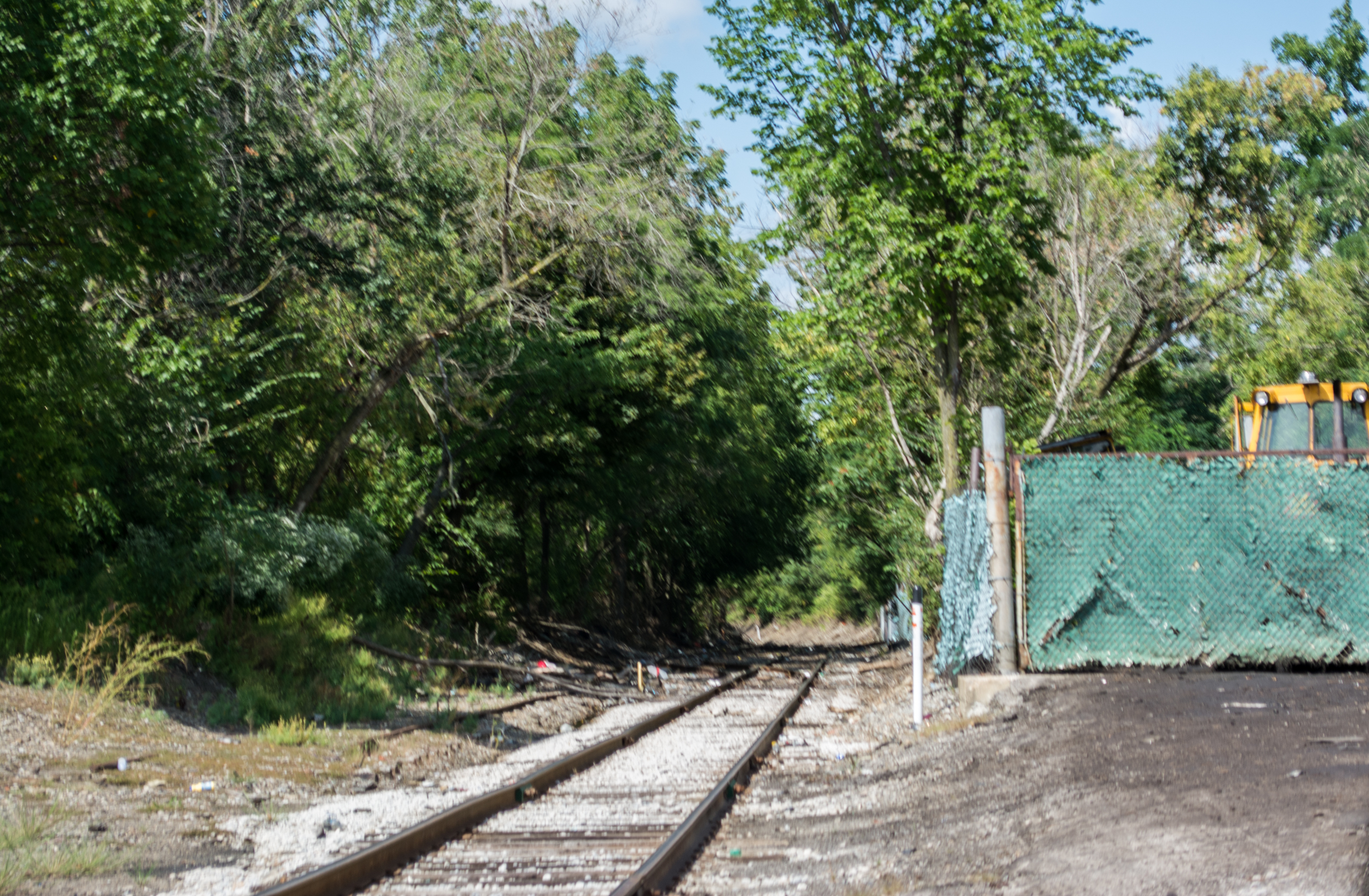 Looking north from Miles Avenue at the former Connotton Valley Railroad tracks in the Union-Miles Park neighborhood of Cleveland, Ohio, in the United States. The route was established and tracks first laid in 1881. The railroad was taken over by the Cleveland & Canton Railroad in 1885, which in turn was absorbed by the Cleveland, Canton & Southern Railroad in 1890. The Wheeling & Lake Erie Railroad took over the tracks in 1899, and followed by the New York, Chicago & St. Louis ("Nickel Plate") in 1949. The Nickel Plate became part of the Norfolk & Western, in 1964, which in turn became part of the Norfolk Southern in 1980. The Norfolk Southern leased these tracks to the Connotton Valley Railway, Inc. in 2002, and to the Cleveland Commercial Railroad in 2004.